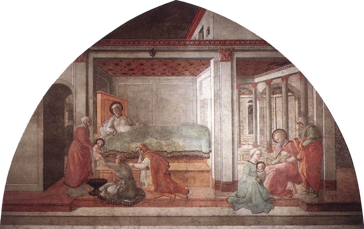 LIPPI, Fra Filippo Birth and Naming St John Fresco Duomo, Prato